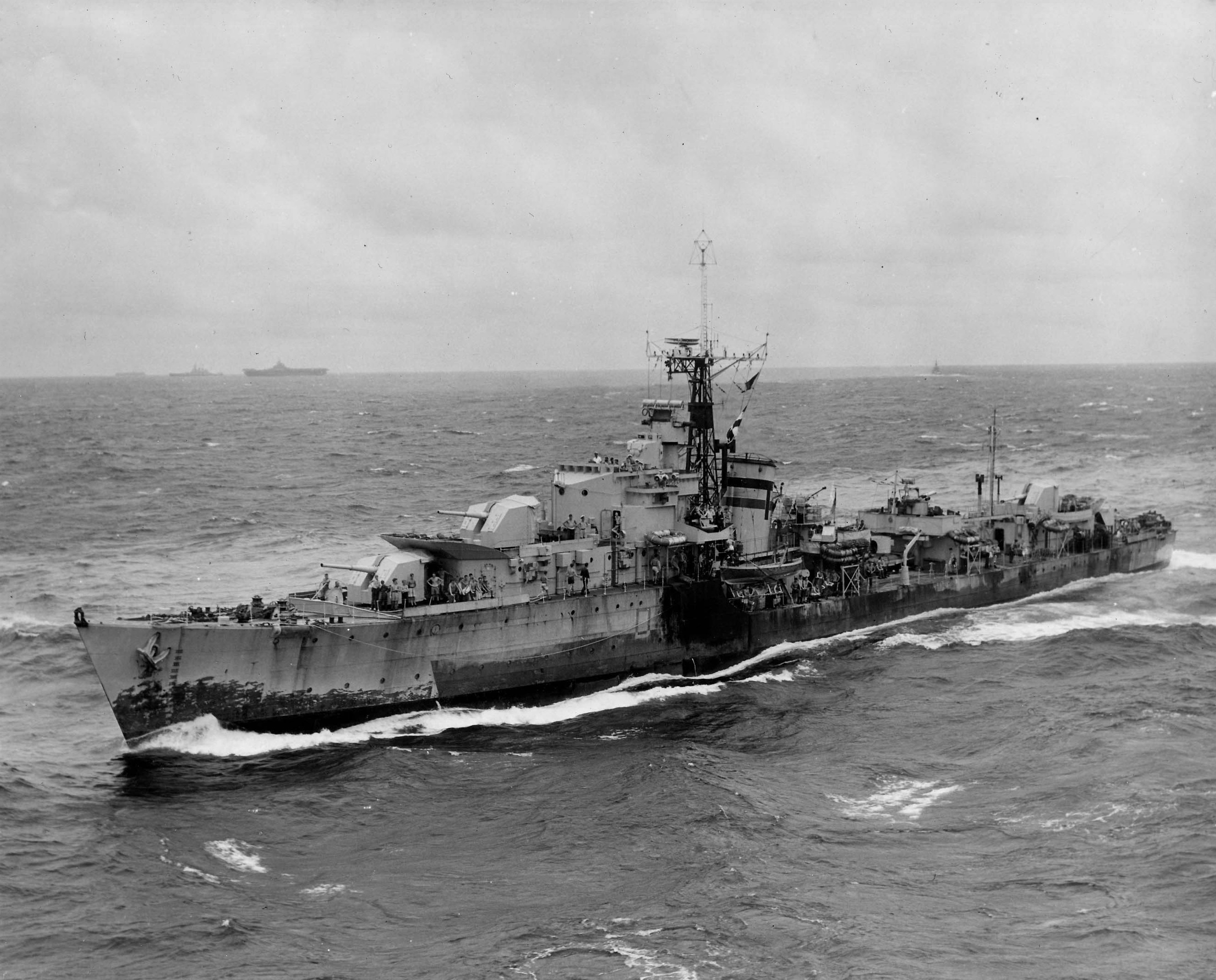 A British Royal Navy T-class destroyer steams next to the U.S. aircraft carrier USS Wasp (CV-18) in August 1945. The destroyer's pennant number (D4?) is obscured by fuel oil. Five T-class destroyers and the carrier HMS Indefatigable (R10) were part of Task Group 38.3 in August 1945: HMS Teazer (D45), HMS Tenacious (D46), HMS Termagant (D47), HMS Terpsichore (D48), and HMS Troubridge (D49). The two funnel rings identify the ships as part of the 24th destroyer flotilla (all T-class destroyers). As the vertical stripe identifies the division leader in the flotilla (the second senior commander), the destroyer is most probably HMS Terpsichore (D48). In the distance are a long-hull Essex-class carrier, probably USS Randolph (CV-15, flagship RAdm Gerald F. Bogan), and the battleship USS North Carolina (BB-55).